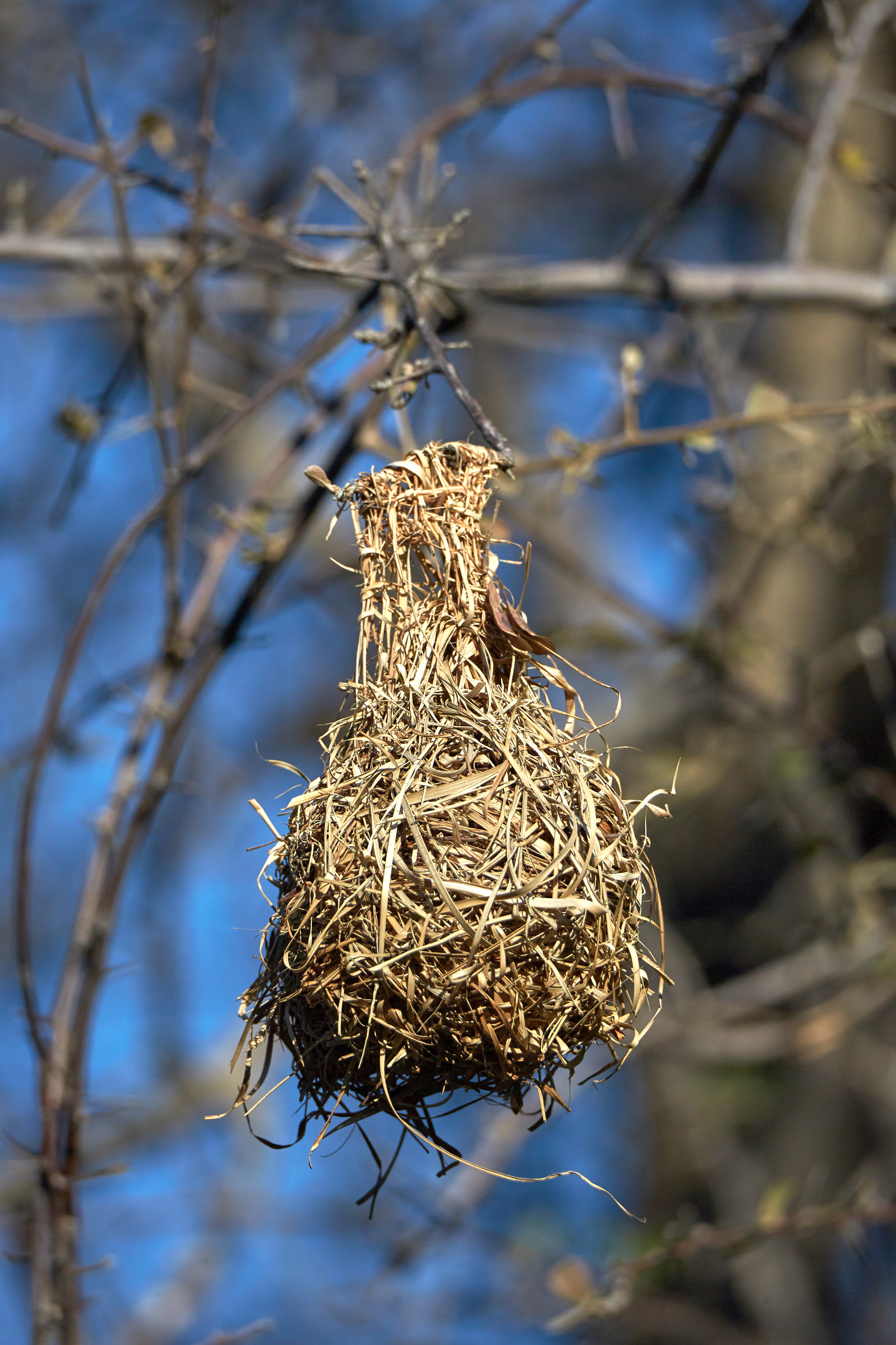 Nest of Southern masked weaver (ploceus velatus) with details of intricate weaving patterns (Etosha National Park, Namibia)